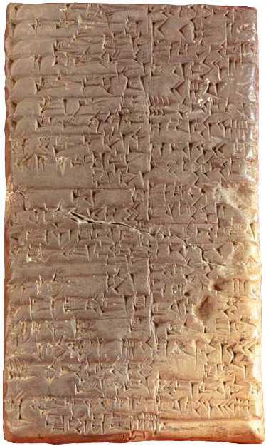 Cuneiform script tablet from the Kirkor Minassian collection in the Library of Congress. From Year 6 in the reign from Amar-Suena/Amar-Sin between 2041 and 2040 BC.